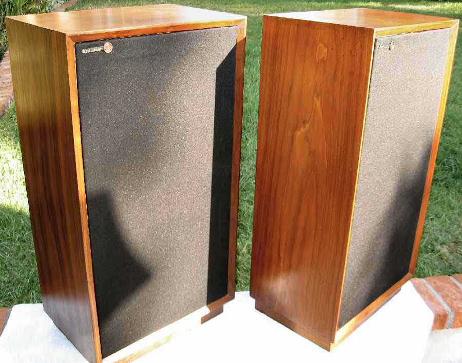 Rectilinear III (commonly known as "Highboys")